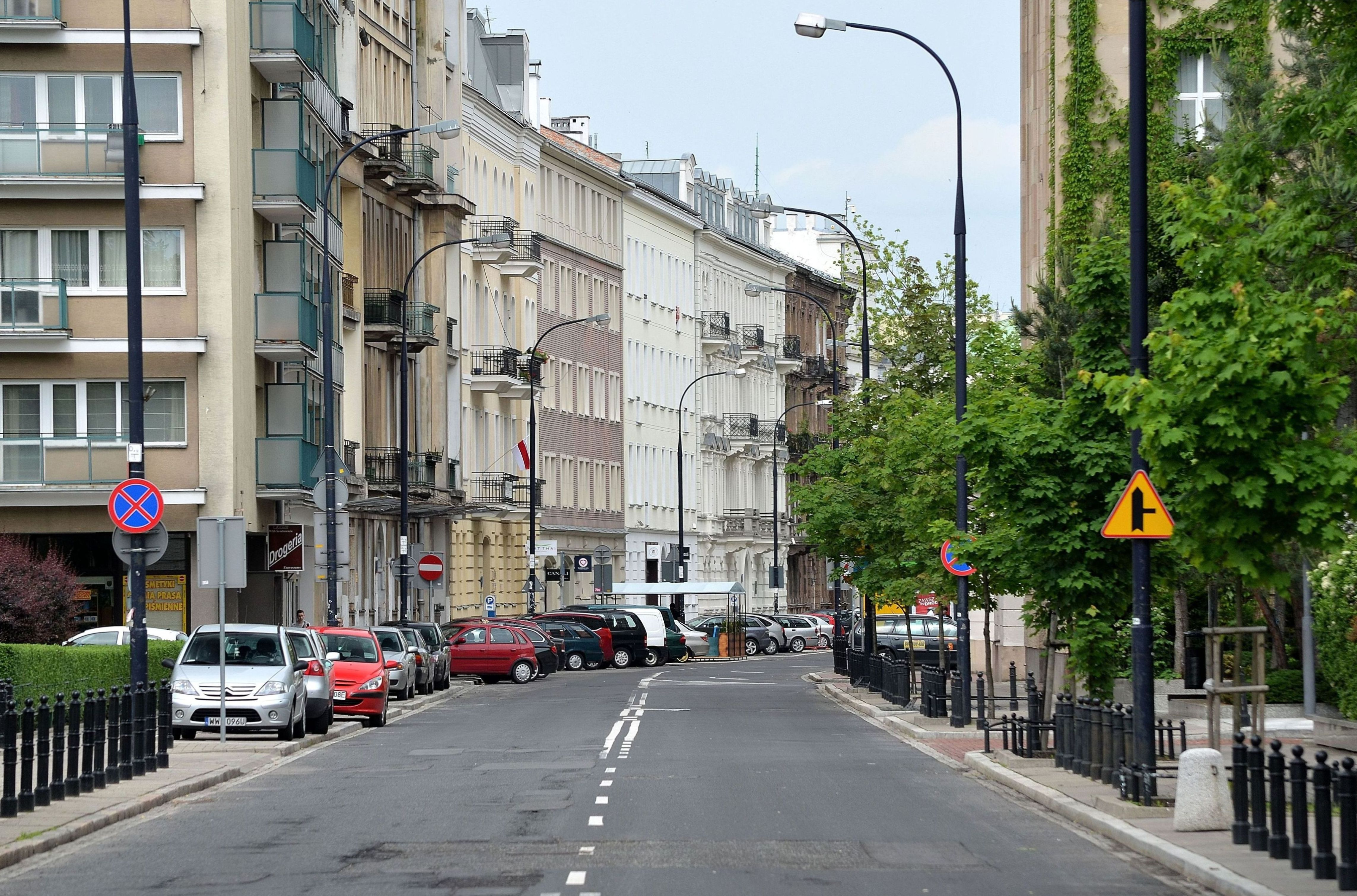 Wiejska Street in Warsaw